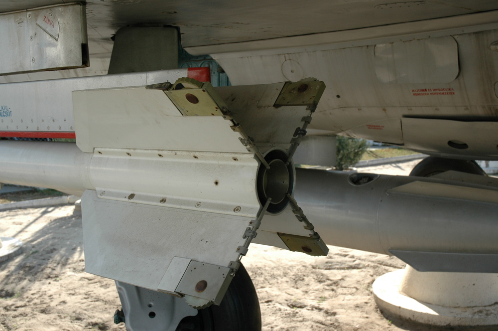 Rollerons on the fins of the R-3 (AA-2 Atoll) air-to-air missile. (Displayed in the Military History Museum and Park in Kecel, Hungary.)